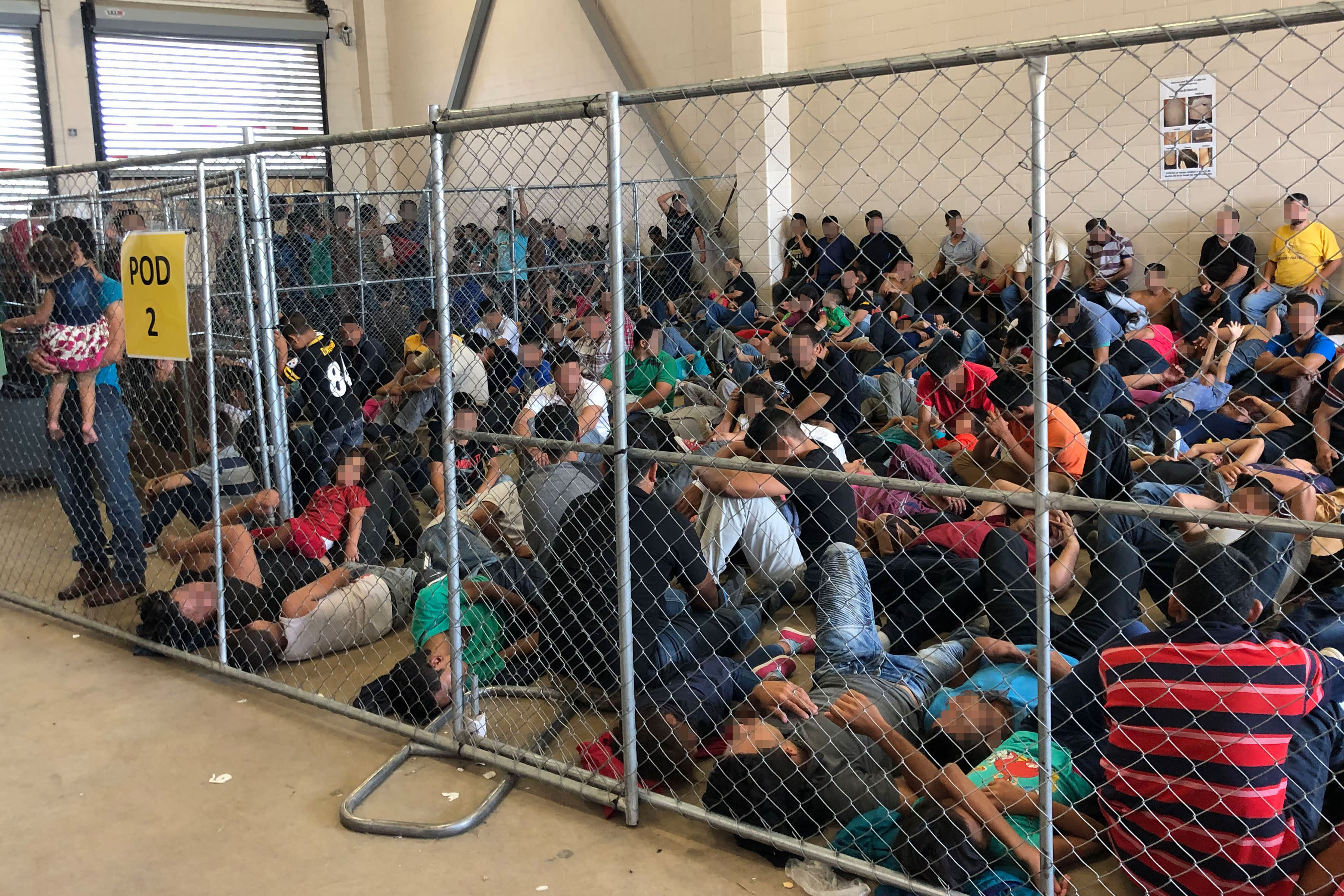 Overcrowding of families observed by OIG on June 10, 2019, at Border Patrol’s McAllen, TX, Station. Faces were digitally obscured by OIG.